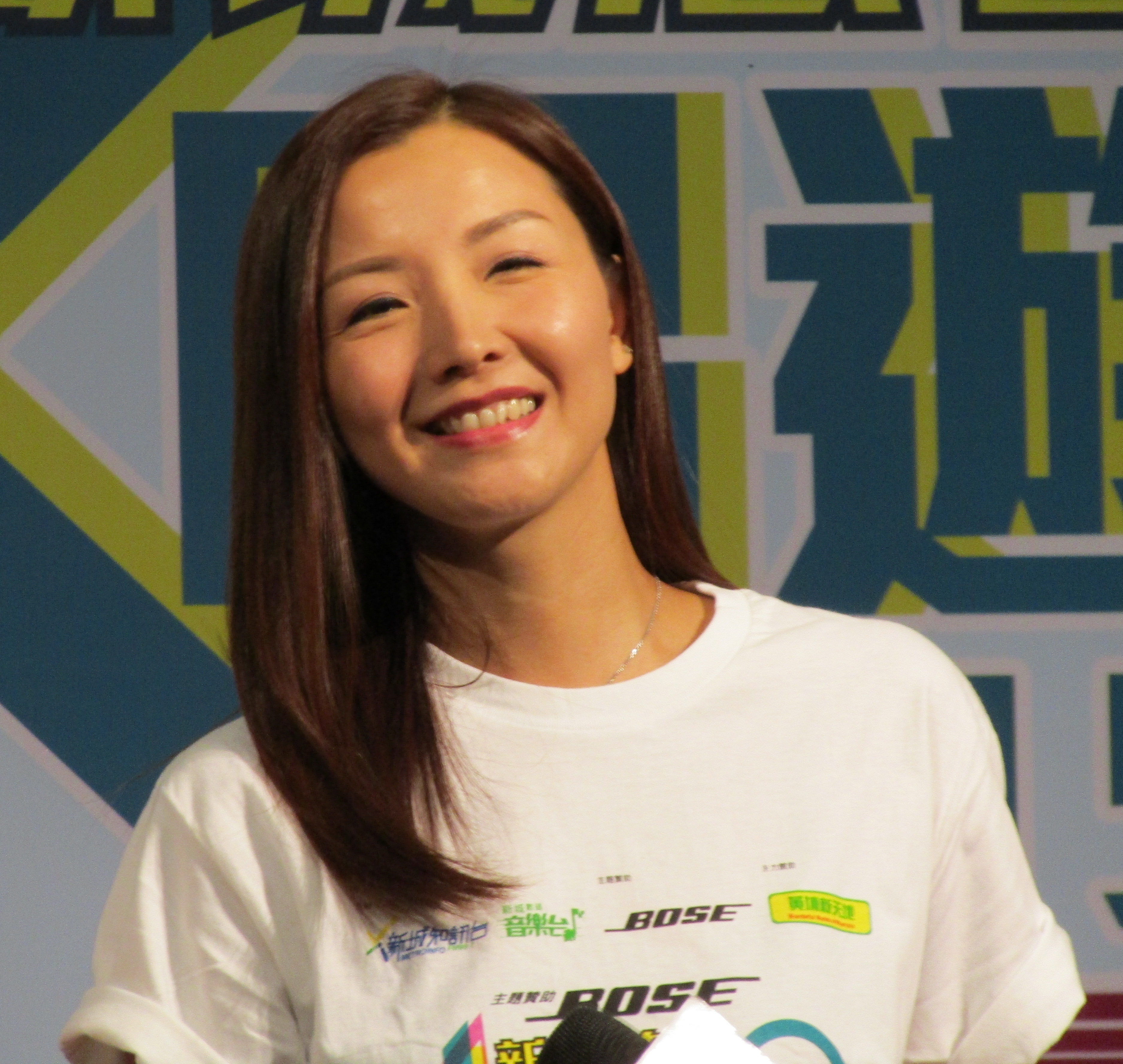 Amy Tam is singing at Wonderful Worlds of Whampoa, Hung Hom